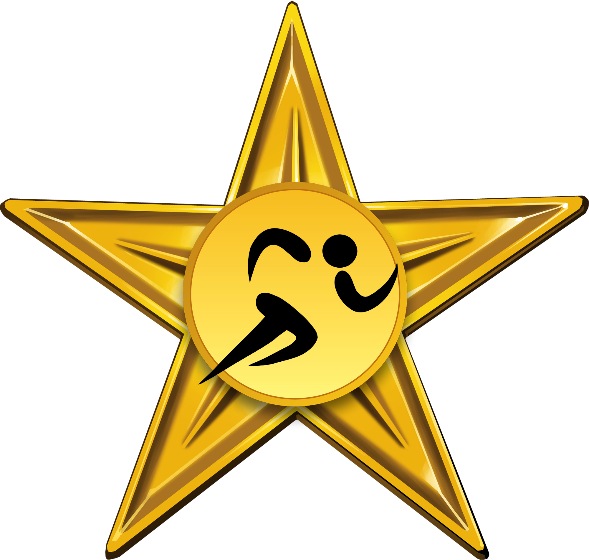 The Running Man Barnstar may be awarded for distinguished efforts in sports-related articles. This barnstar is intended for those who give 110% in order to advance Wikipedia's coverage of the world of sports.